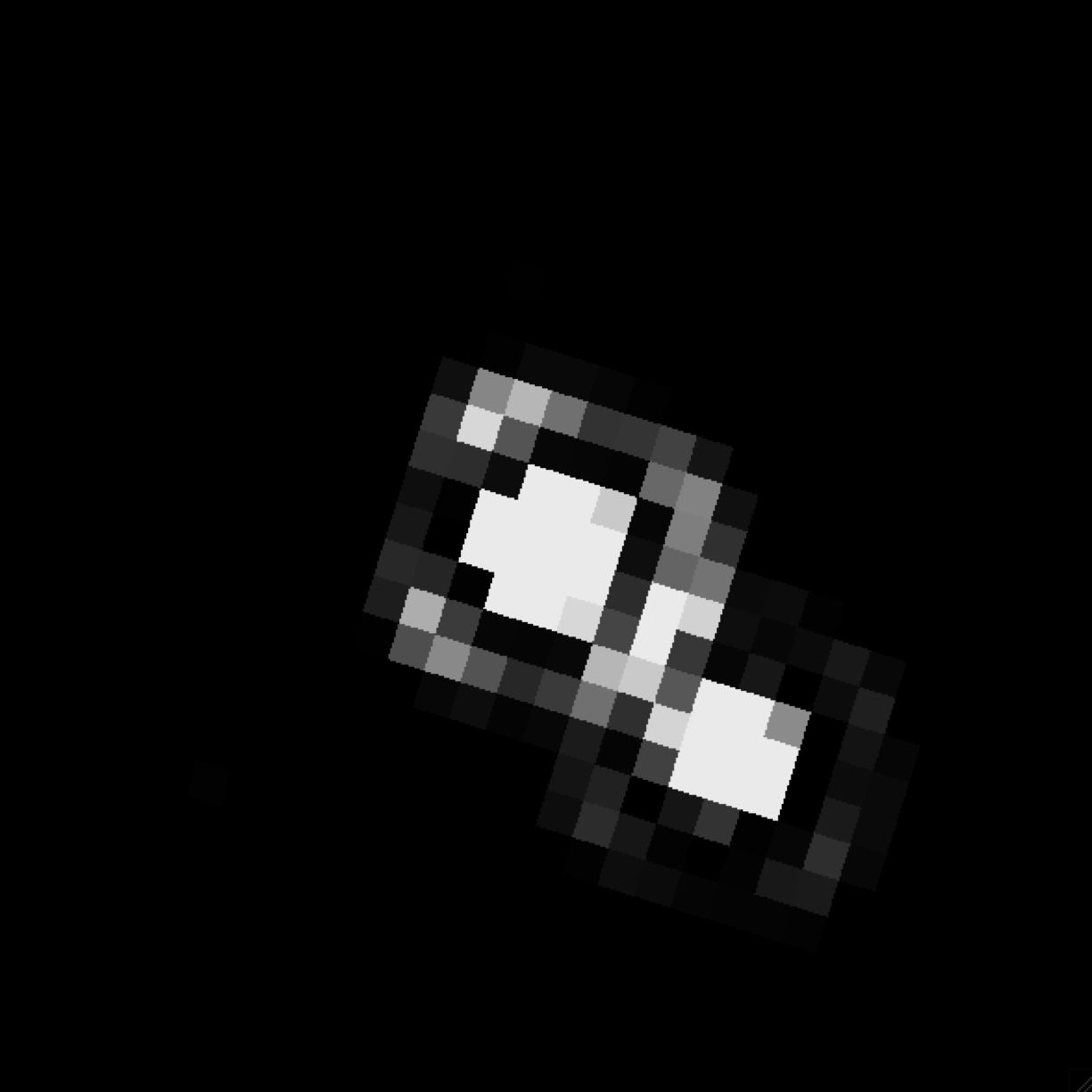 The binary brown dwarf Kelu-1 resolved by the Hubble Space Telescope. The two components are 61 and 50 times the Jupiter's mass.